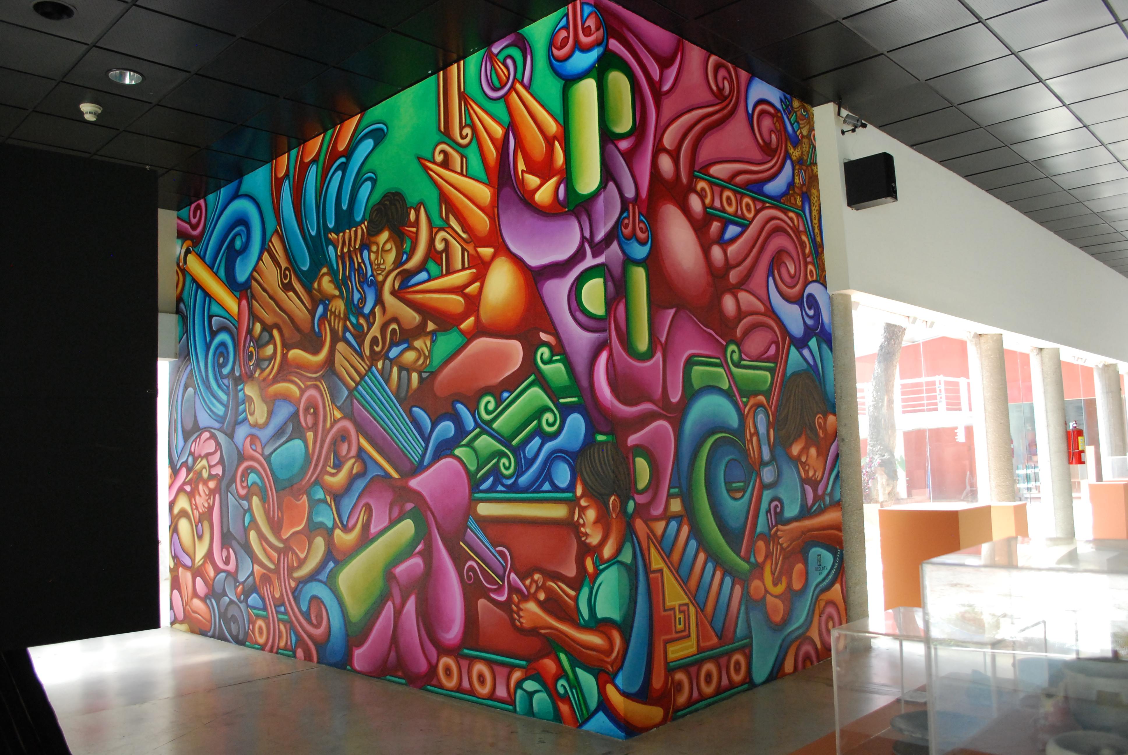 Entrance hall to Museo Estatal de Arte Popular de Oaxaca with mural by unknown artist in San Bartolo Coyotepec, Oaxaca, Mexico See COM:CRT/Mexico#Freedom of panorama